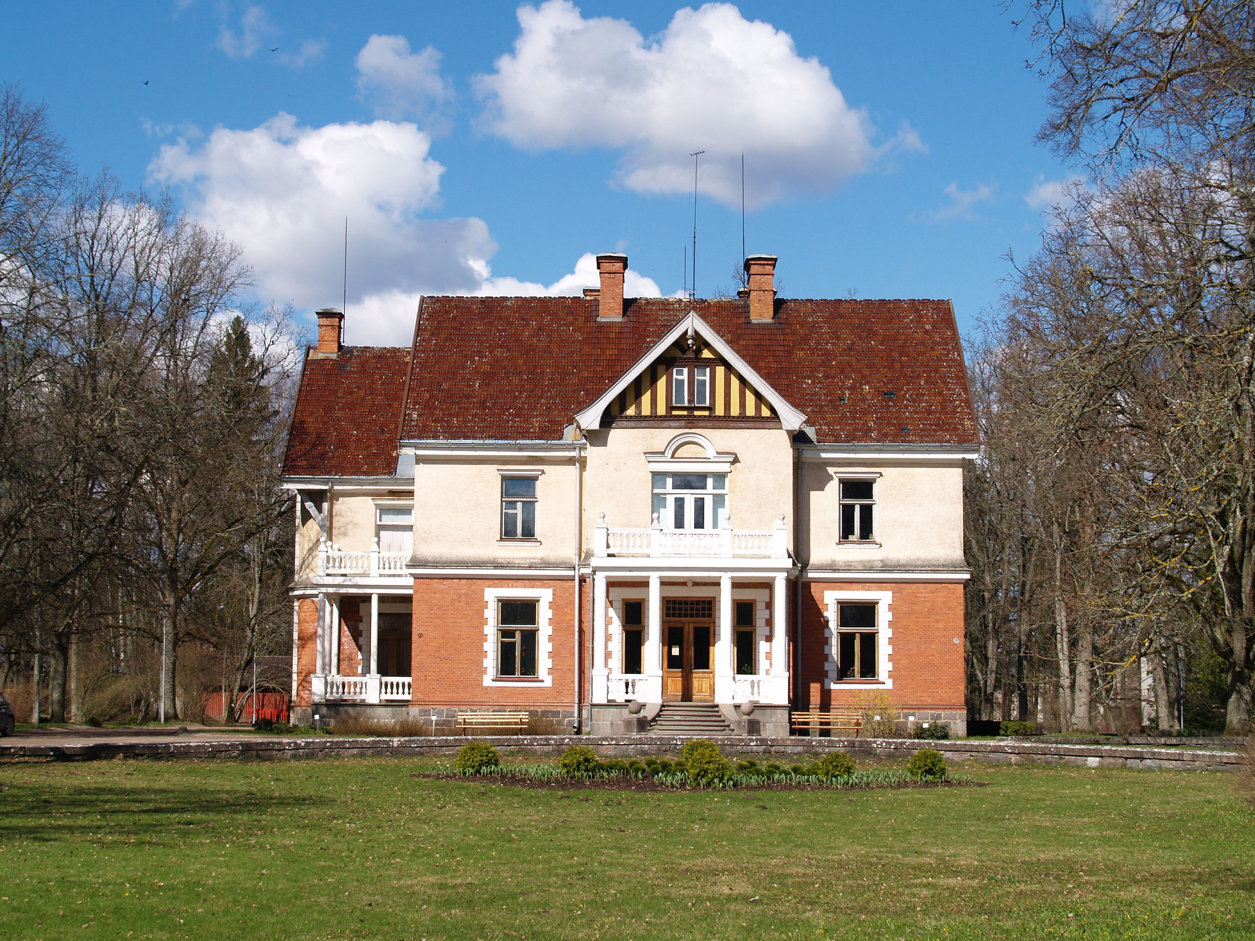 Olustvere Manor, Estonia.